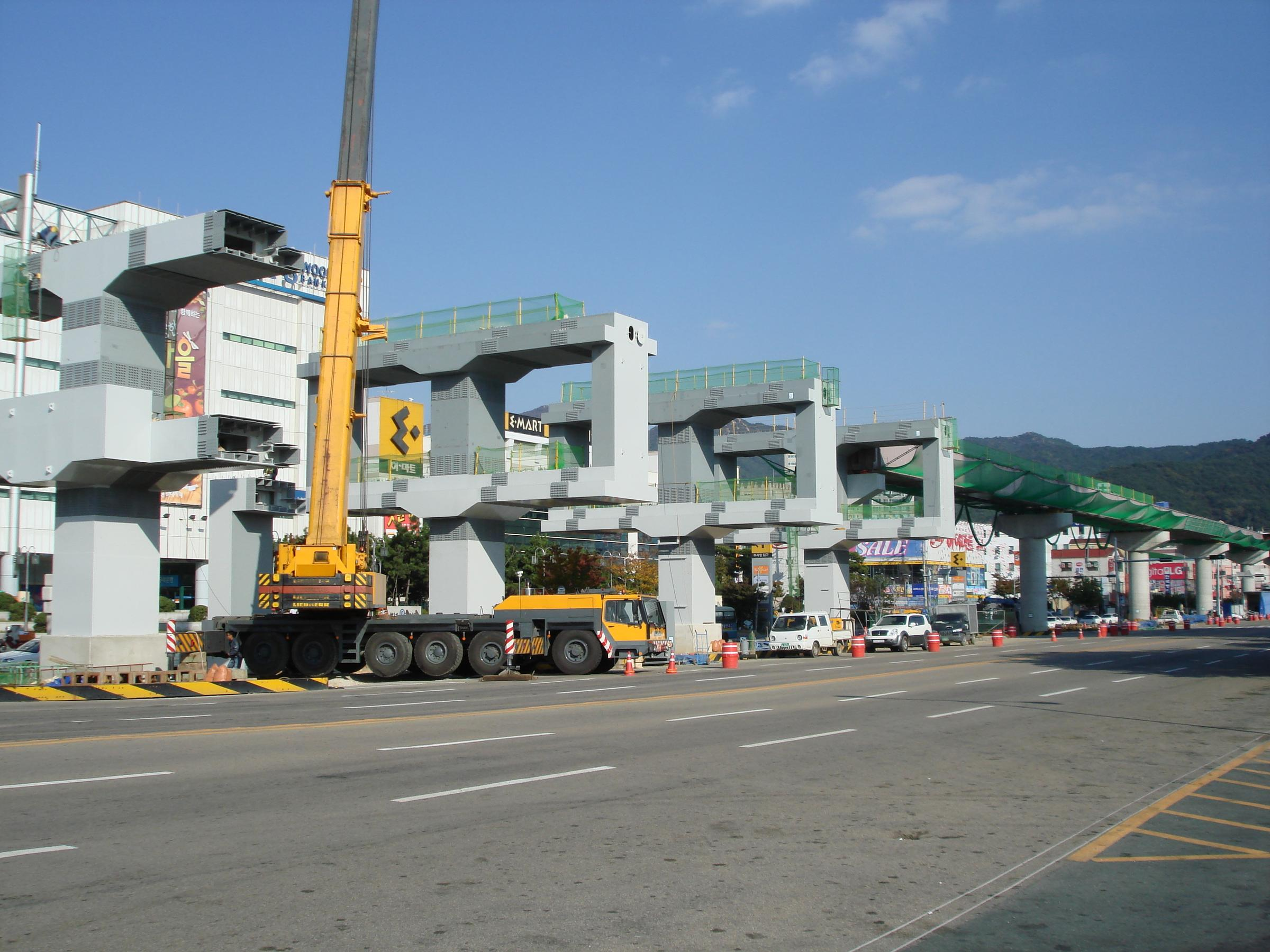 Construction of Gangbyeon Station of Busan-Gimhae Light Rail Transit, in Busan, South Korea